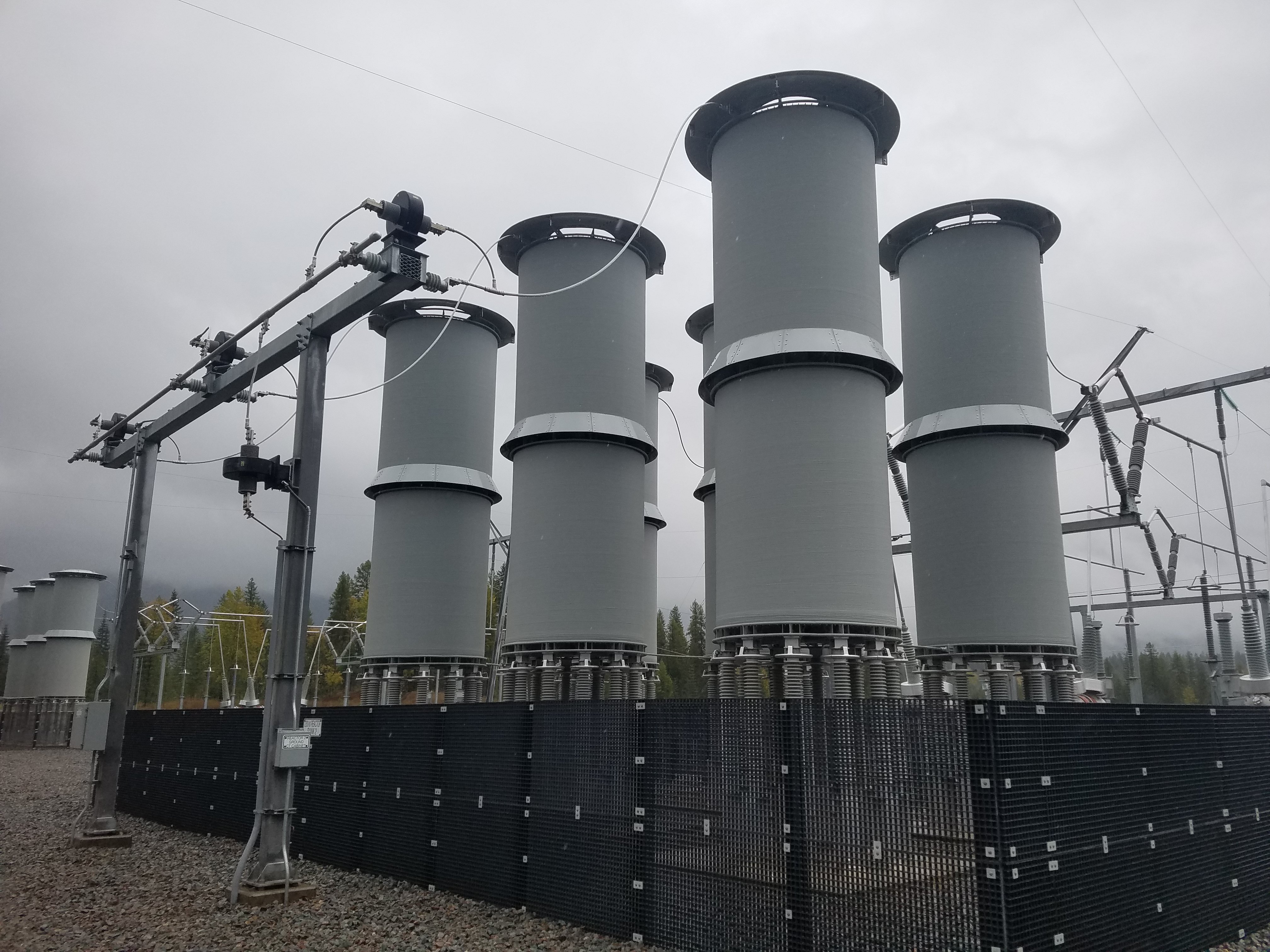 Air Core, a so called Shunt Reactor, north of Noxon substation near Noxon Rapids Dam, MontanaThese coils connected phase-to-earth to compensate for capacitive current in the power grid.